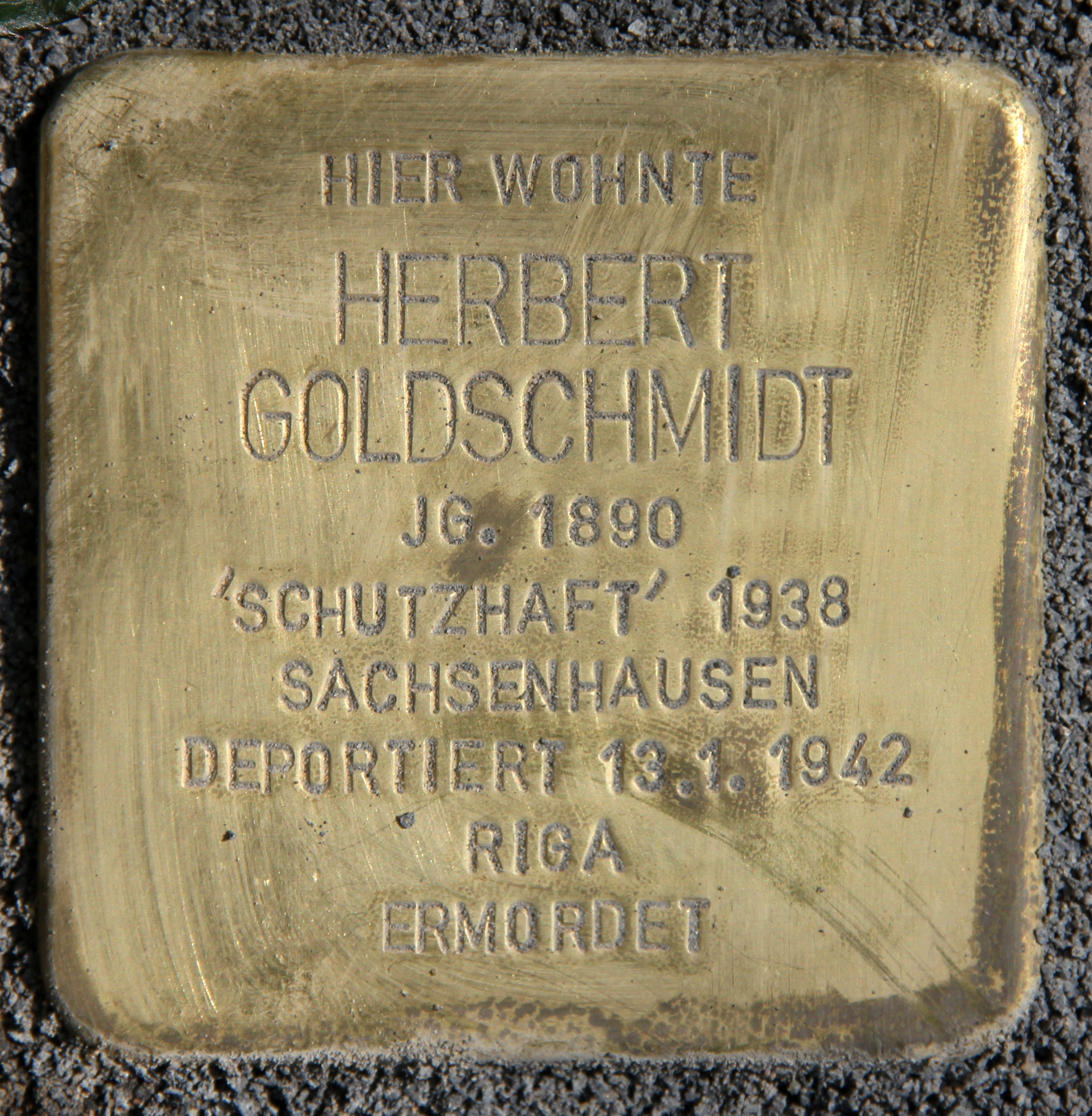 "Stolperstein" (stumbling block), Herbert Goldschmidt, Droysenstraße 18, Berlin-Charlottenburg, Germany